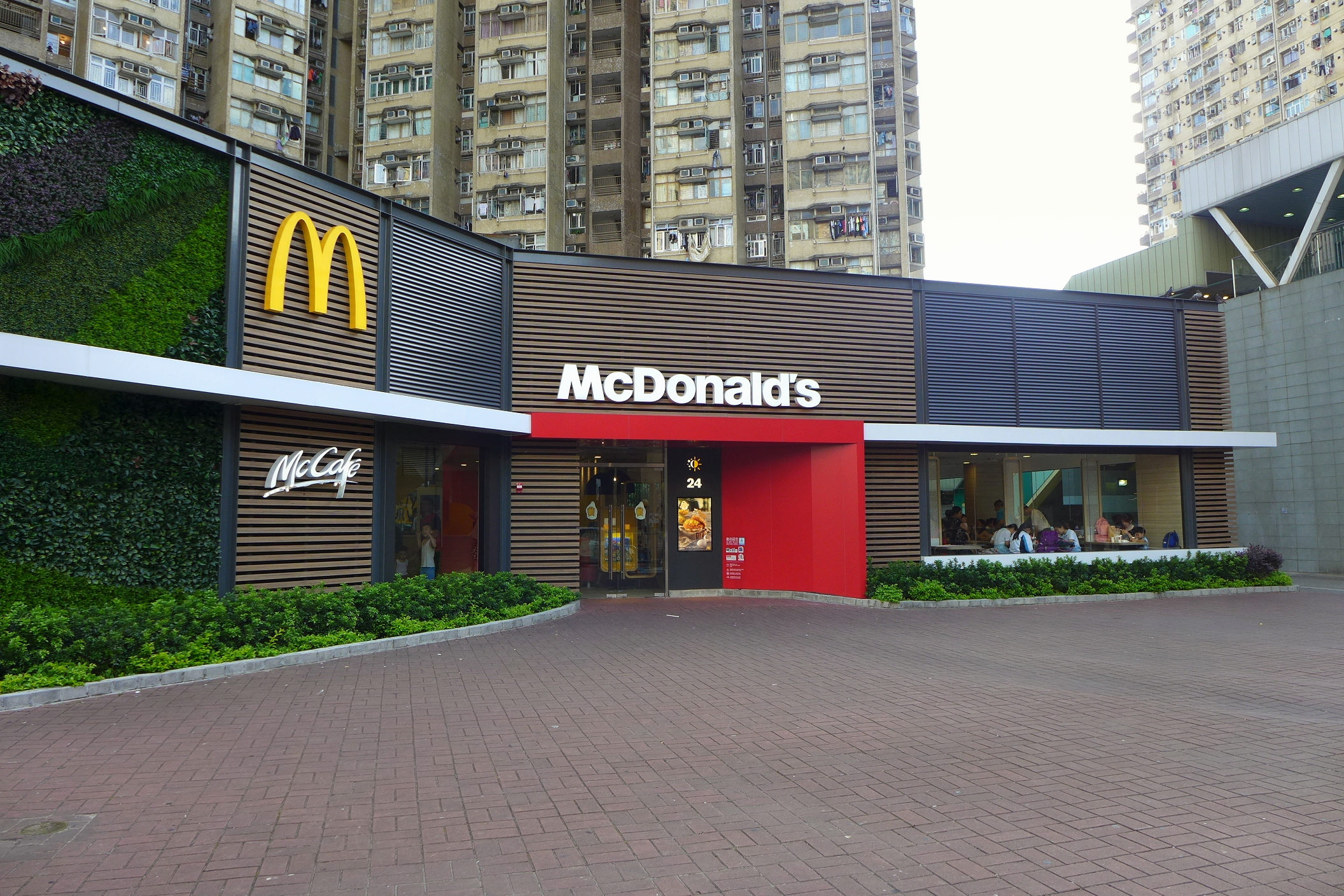 MacDonald in Tai Wo Estate